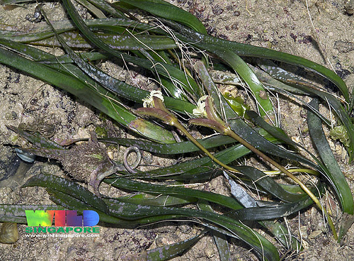 Growing to 1 m long or more, Enhalus_acoroides is the longest seagrass on Singapore's shores. This seagrass flowers quite regularly, producing large female flowers on long stalks that develop into a furry fruit.